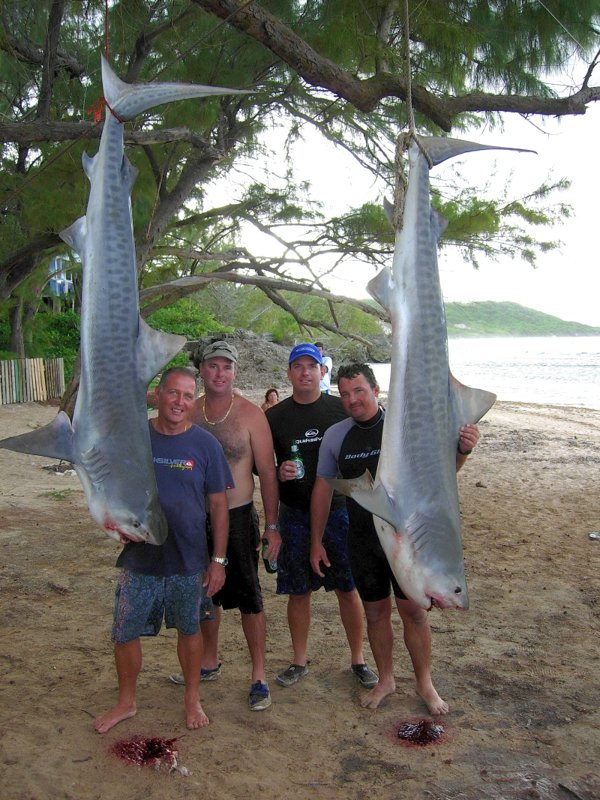 We caught these two Tiger sharks off Bath Beach two Kilometres North West of Consett Bay in August 2009 on Palangs or anchored long lines. They were cut up and eaten by the Bank Holiday crowd the same day.